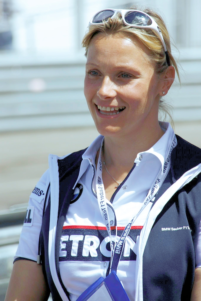 Vicki Butler Henderson in July 2008